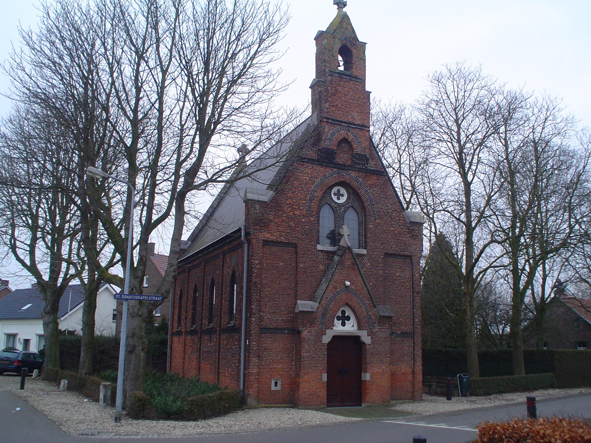 The Sint Donatus chapel in the hamlet Hushoven, near Weert, the Netherlands.